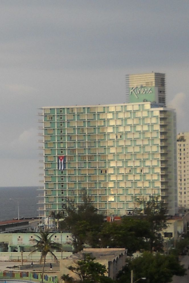 Photo taken in May 2009 from a building on 2 y 12 on the 8th floor